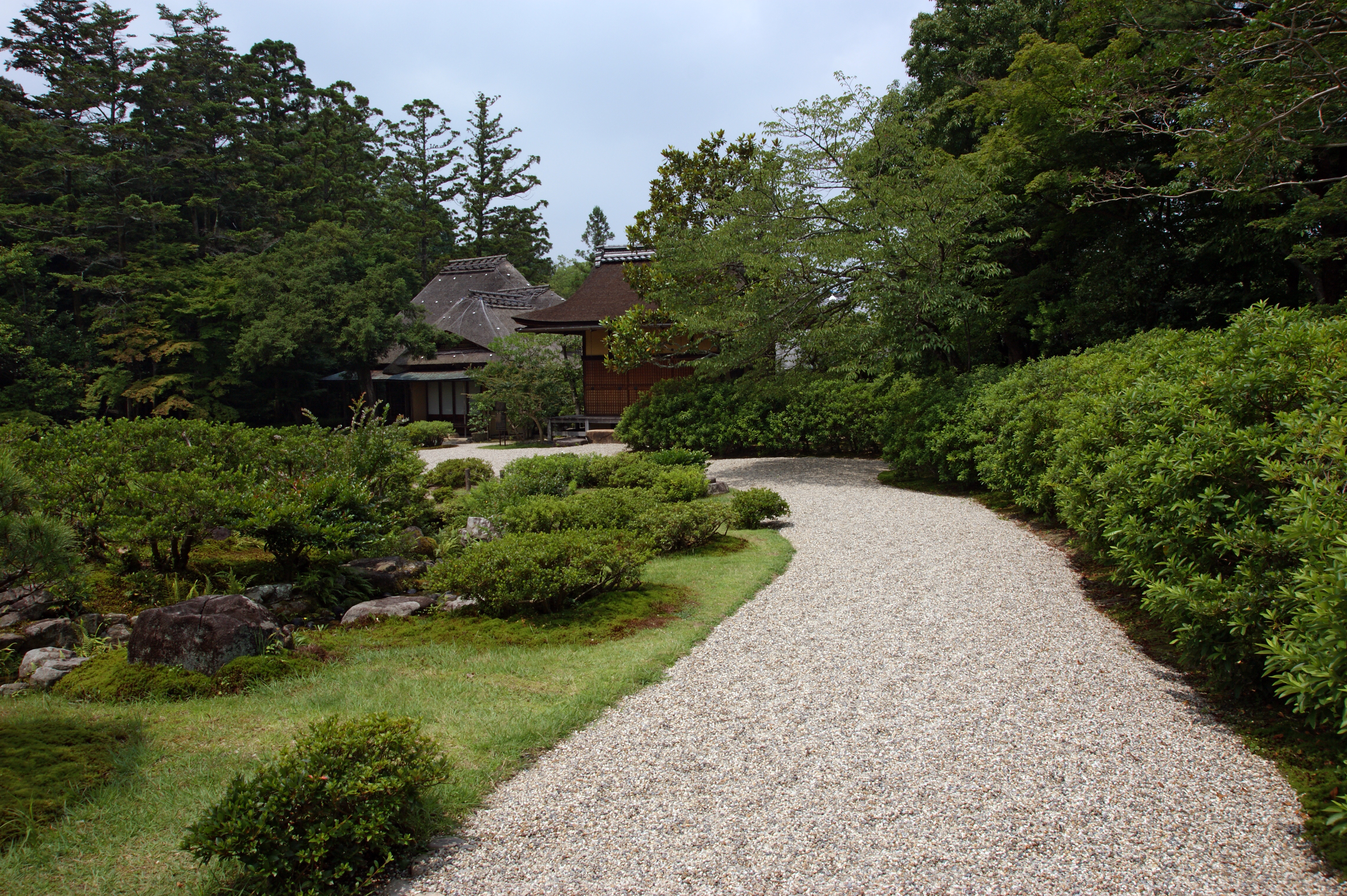 Isuien in Nara, Nara prefecture, Japan